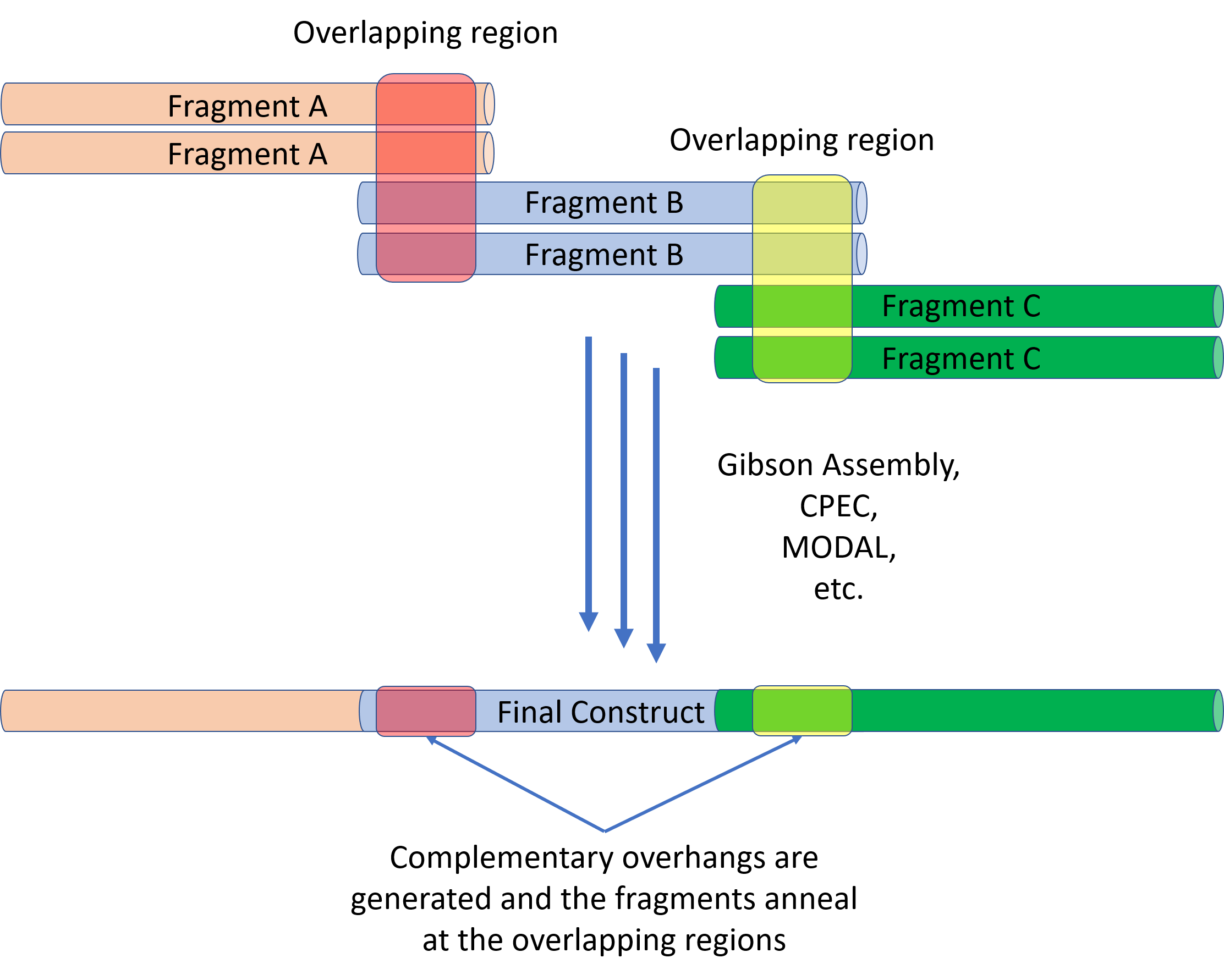 Long overlap assembly requires the presence of overlapping regions between DNA fragments. These overlapping regions thus allow for assembly via a variety of overlap assembly standards, e.g. Gibson assembly, MODAL or SLIC etc.